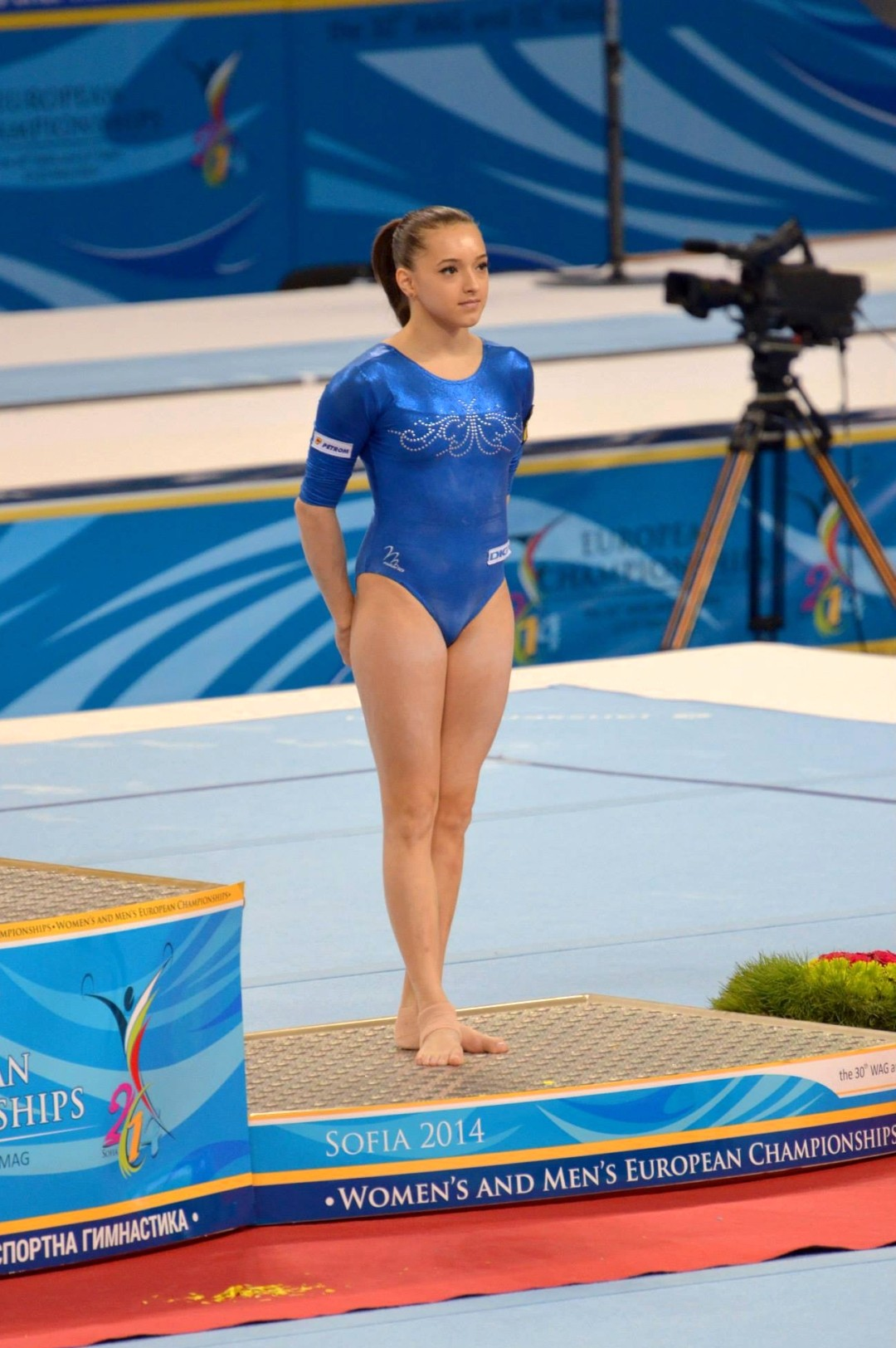 Larisa Iordache at Euro Sofia 2014